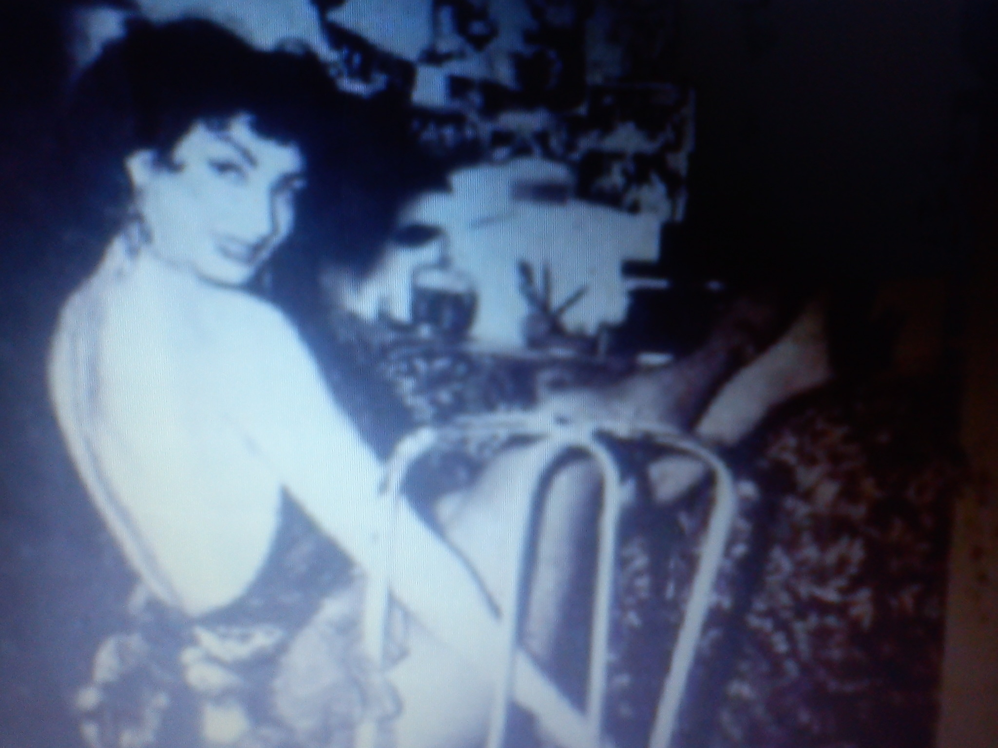 Lilián del Río - actress and vedette